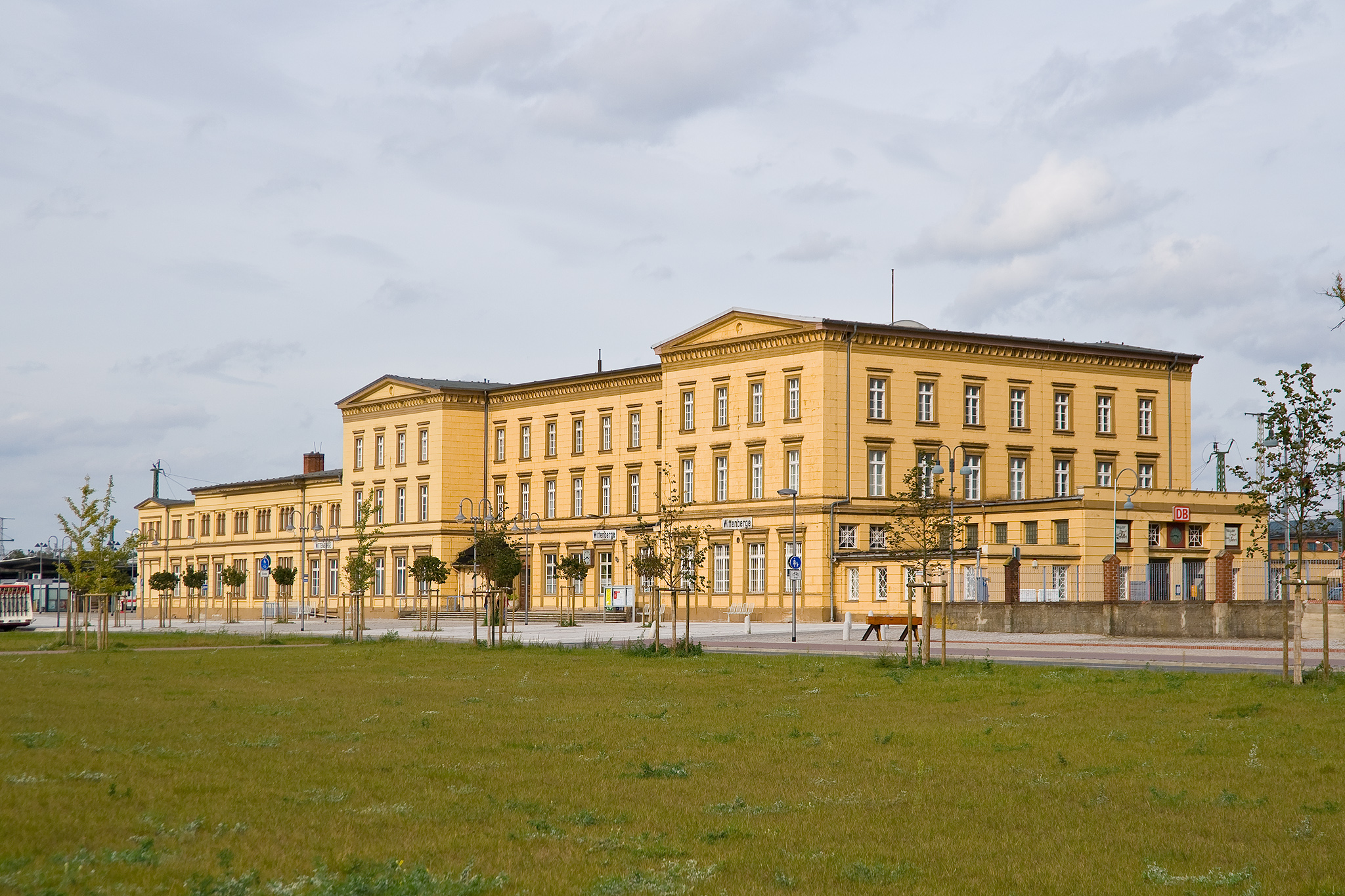 Wittenberge train station.